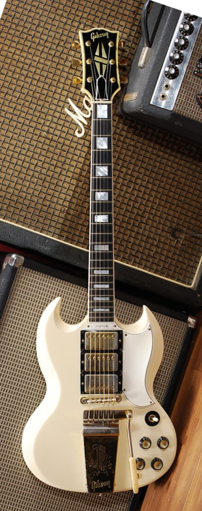 1963 Gibson SG Custom with Lyre Vibrola